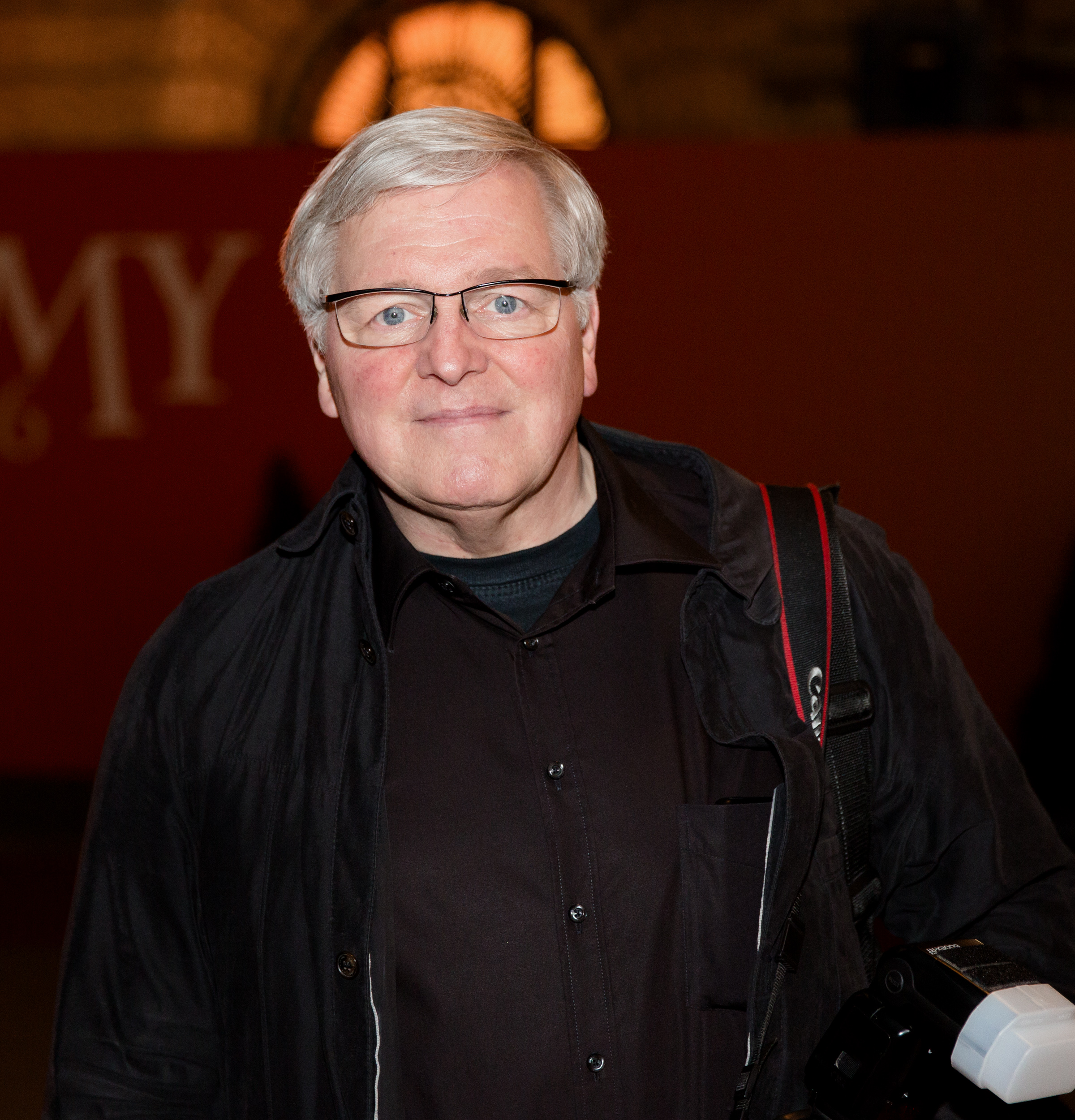 Conny de Beauclair on the red carpet of the Romy TV awards 2016 at Hofburg Palace in Vienna, Austria.